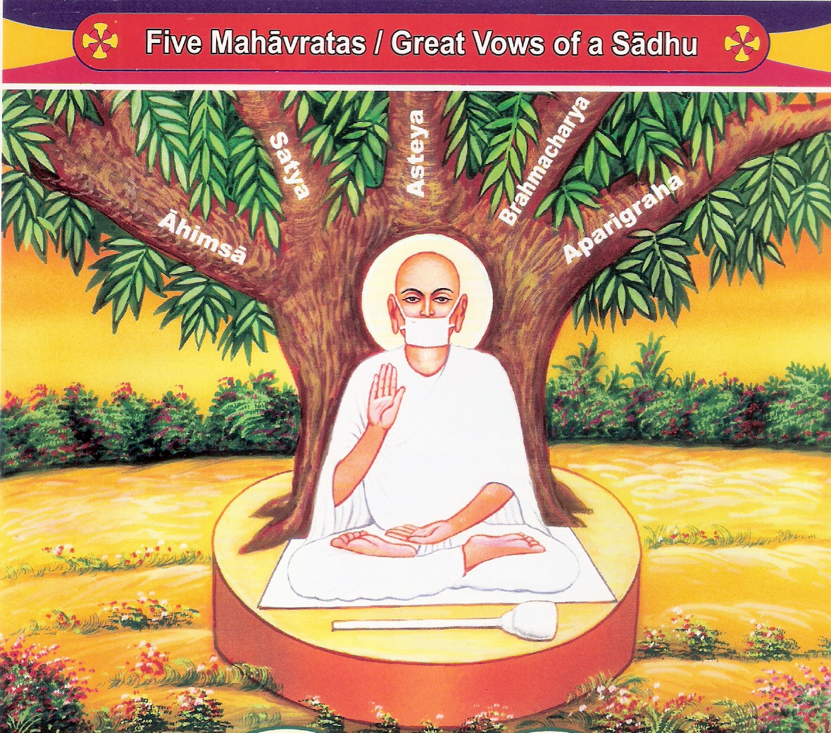 This image illustrates the Mahavrata or the five great vows of a Jain ascetic